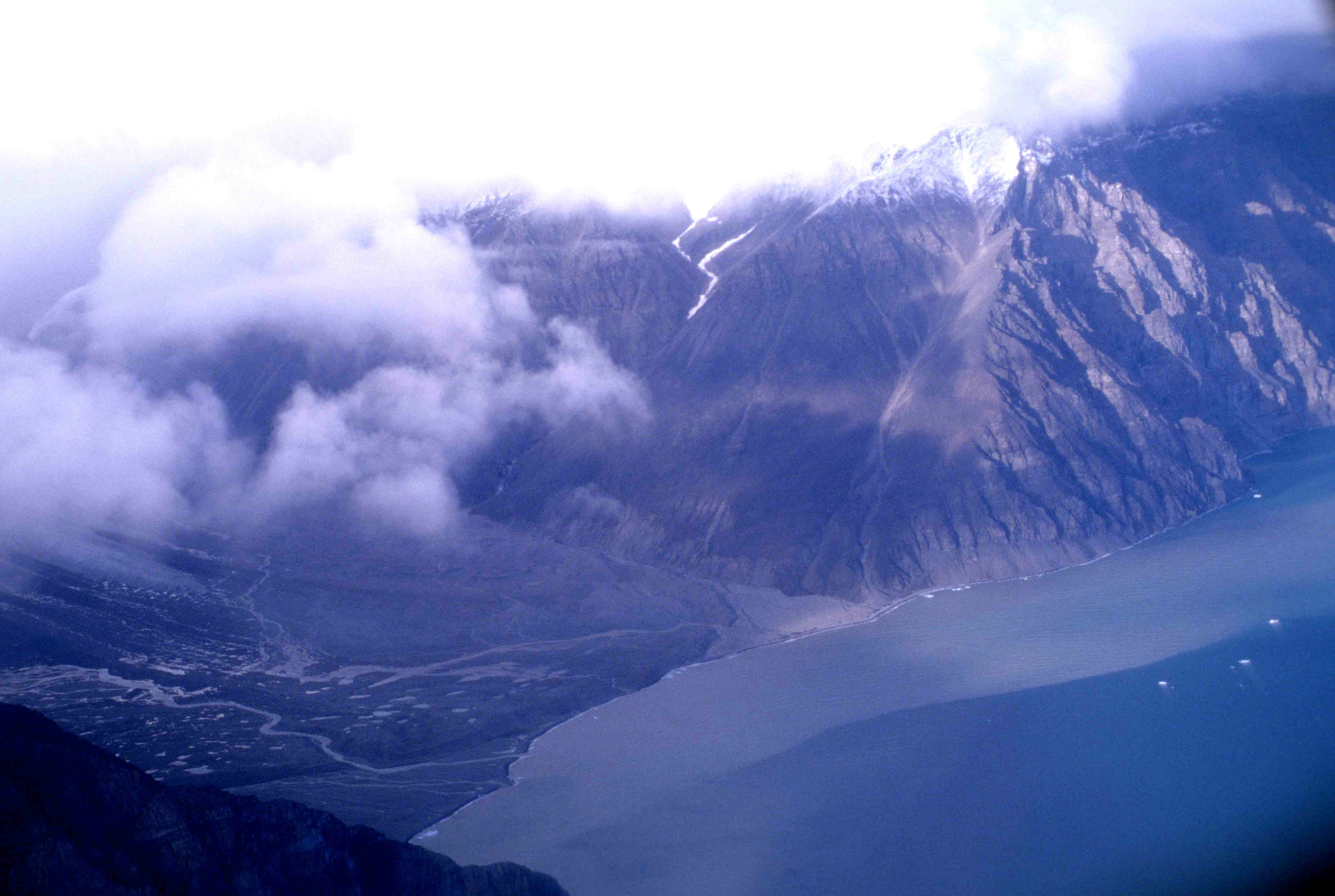 Tip of the tongue of Kaparoqtalik Glacier (southern coast of Bylot Island at Pond Inlet, Sirmilik National Park, Canada)